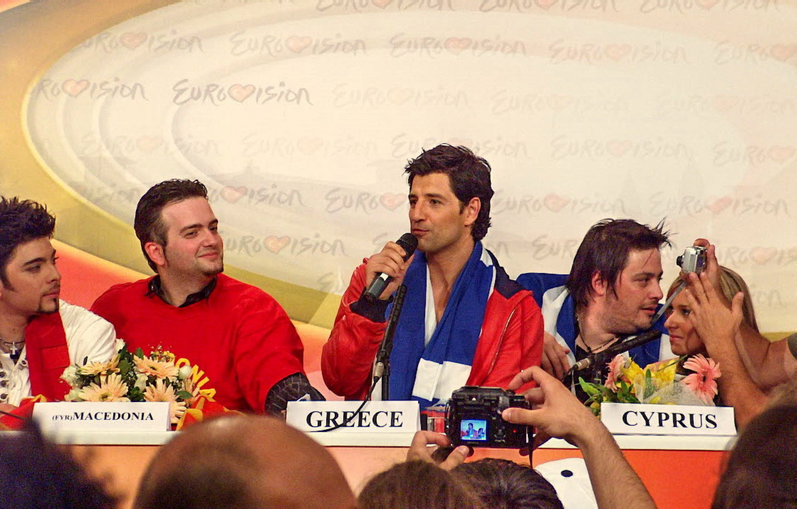 Sakis Rouvas (Σάκης Ρουβάς), representing Greece, speaking at the press conference of the 10 countries qualified for the Final of Eurovision 2004 - At the press tent, outside the Abdi İpekçi Arena in Istanbul, Turkey, right after the end of the Semi-Final.